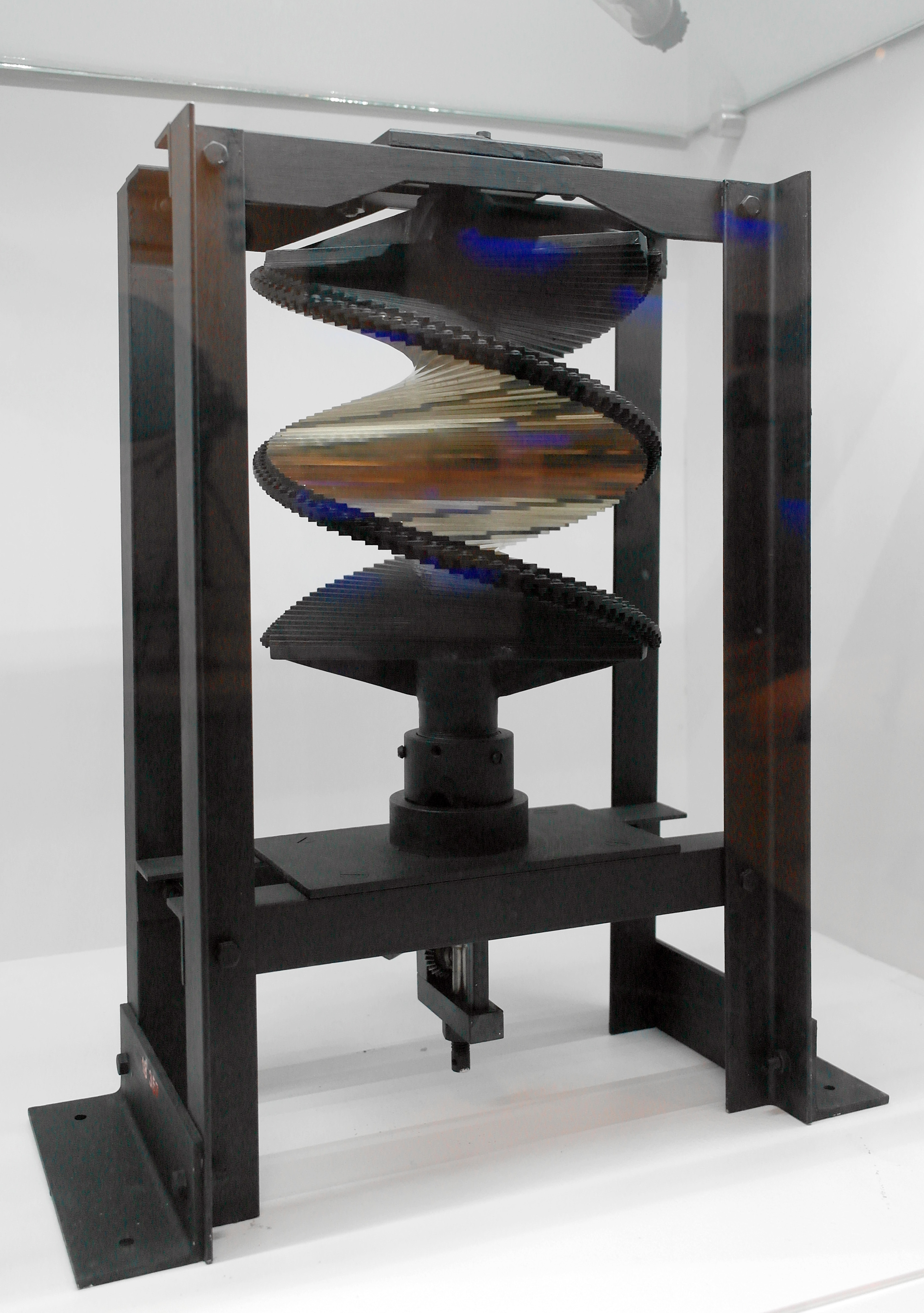 Mirror screw for mechanic television. Applicable for receiving set and allows larger image size versus Nipkow disc. Exhibition of Czech National Technical Museum, Prague.